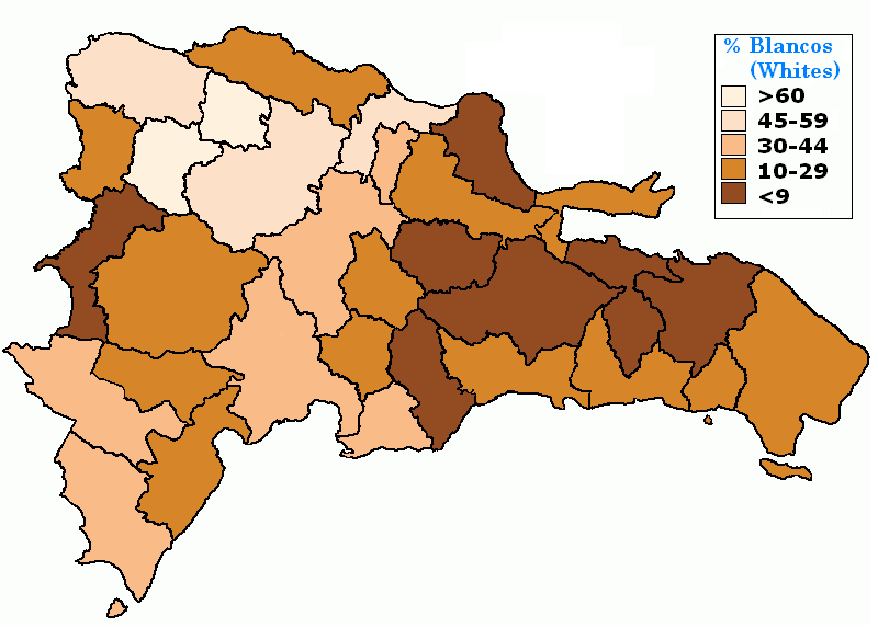 White population according to the last detailed census on race (1950)